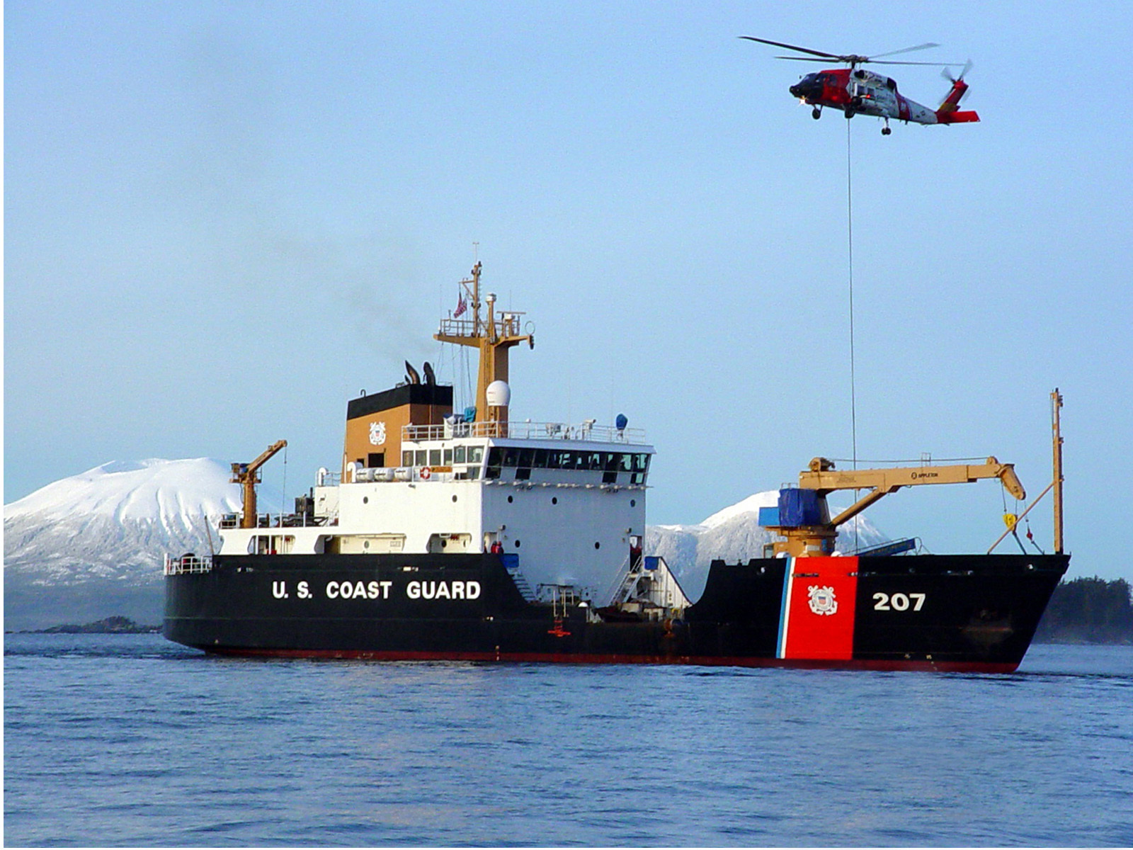 SITKA, Alaska (Feb. 2, 2004)-- A Coast Guard Air Station Sitka Jayhawk helicopter crew conducts vertical replenishment training with the crew aboard Coast Guard Cutter Maple in Southeast Alaska's Western Channel. The helicopter crew lowers heavy emergency oil containment system to the cutter's buoy deck. USCG photo by Ensign Lisa Aguirre.